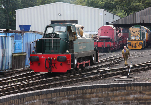 Shunting at Wansford. Ex-London Transport Sentinel shunter DL83 in action at the Nene Valley Railway's locomotive depot and workshops. Next to the red breakdown crane is Class 14 D9516 - the headboard reflects the nickname of this type, teddybears.